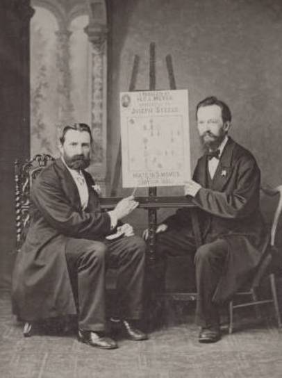 Joseph Steele and H.F.L. Meyer, chess composers